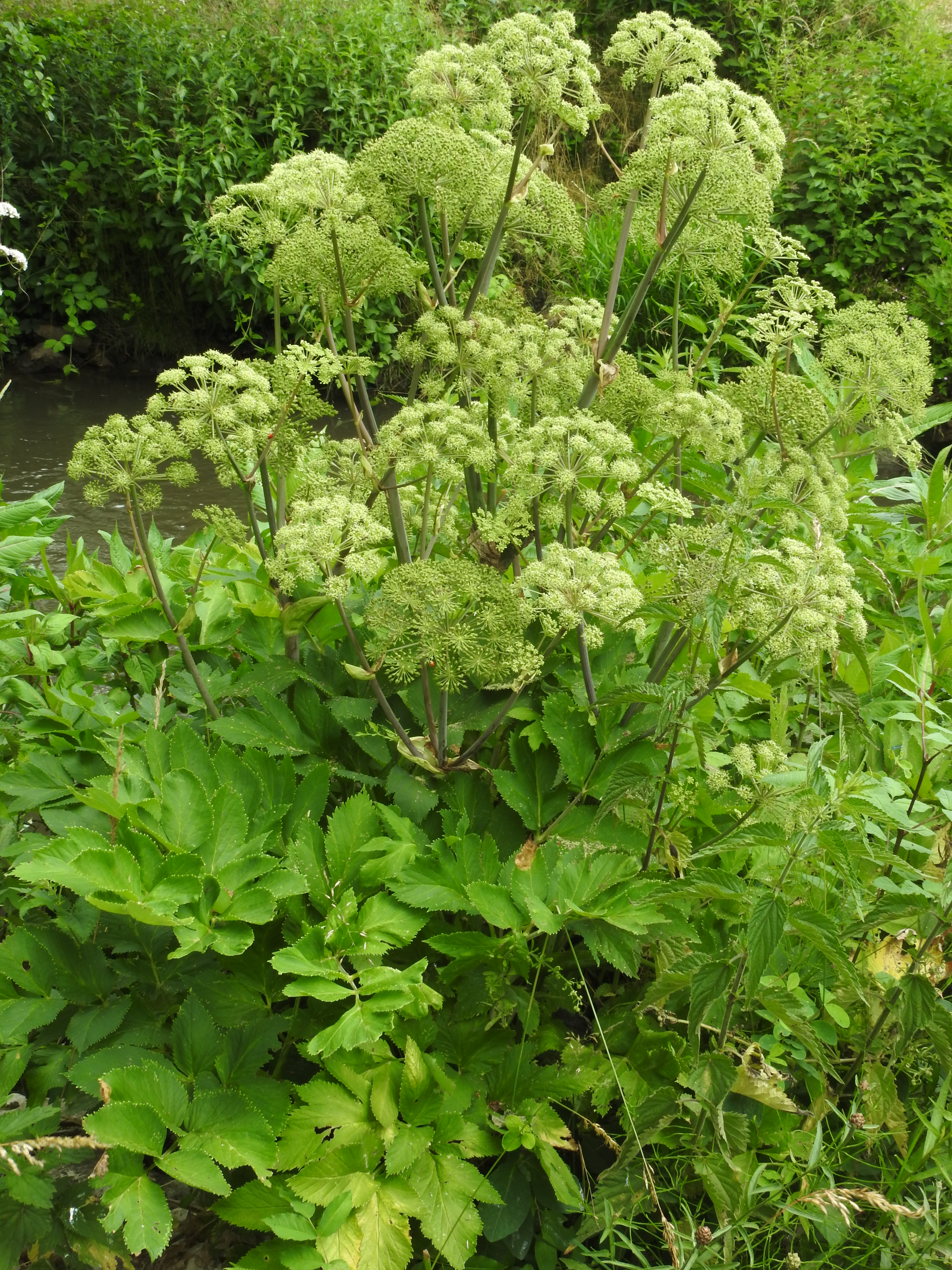 Angelica archangelica between Eglasmühle and Berching, Upper Palatinate, Germany